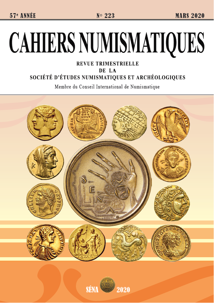 Cover page of "Cahiers numismatiques", issue #223, 2020.